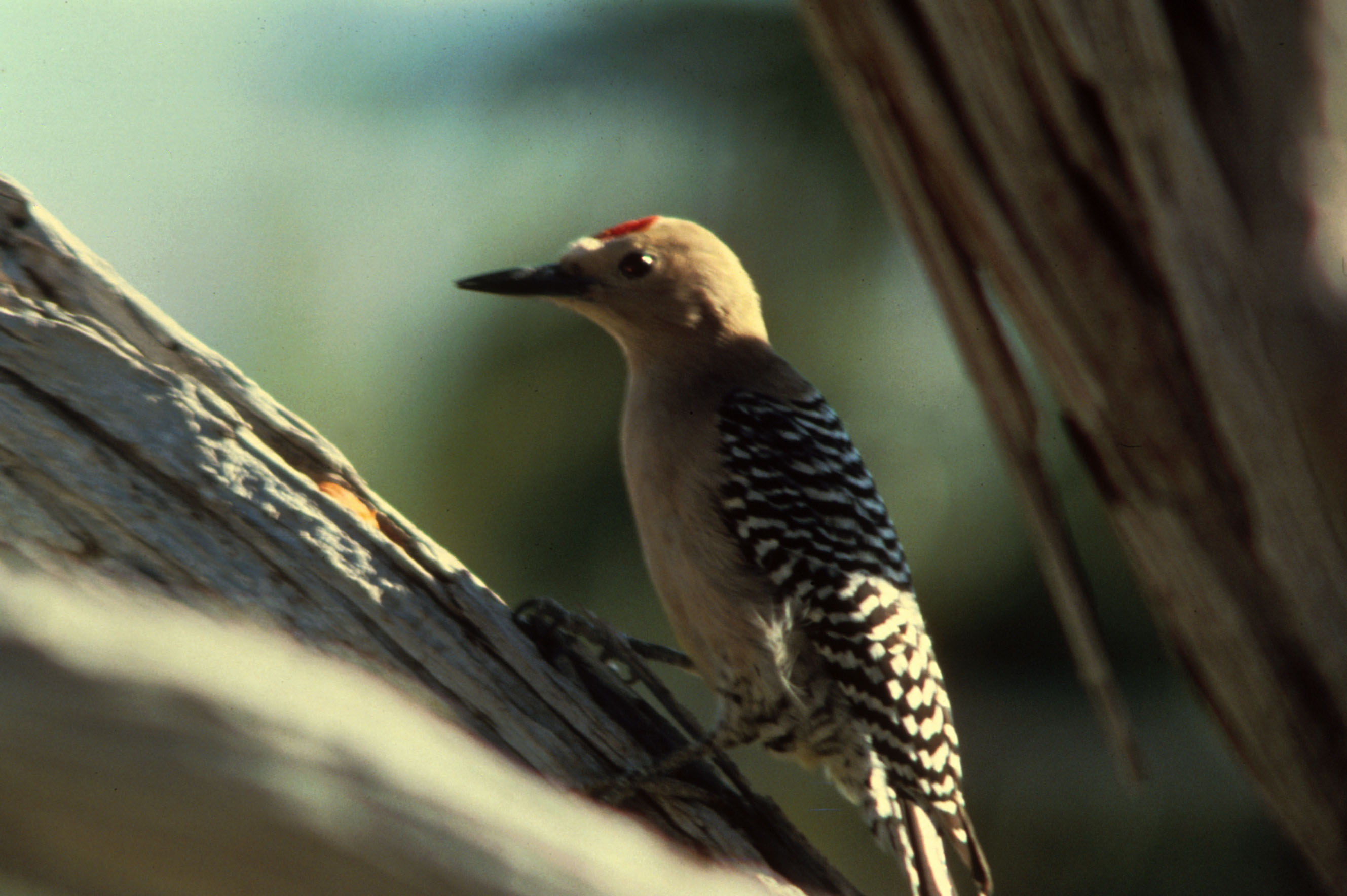 Gila Woodpecker. Public domain from USFWS. Possibly taken at Colorado River.